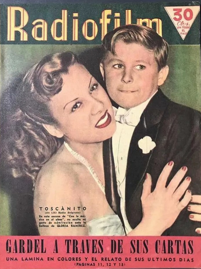 Gloria Ramírez and Toscanito on Radiofilm cover, N° 207, June 1949